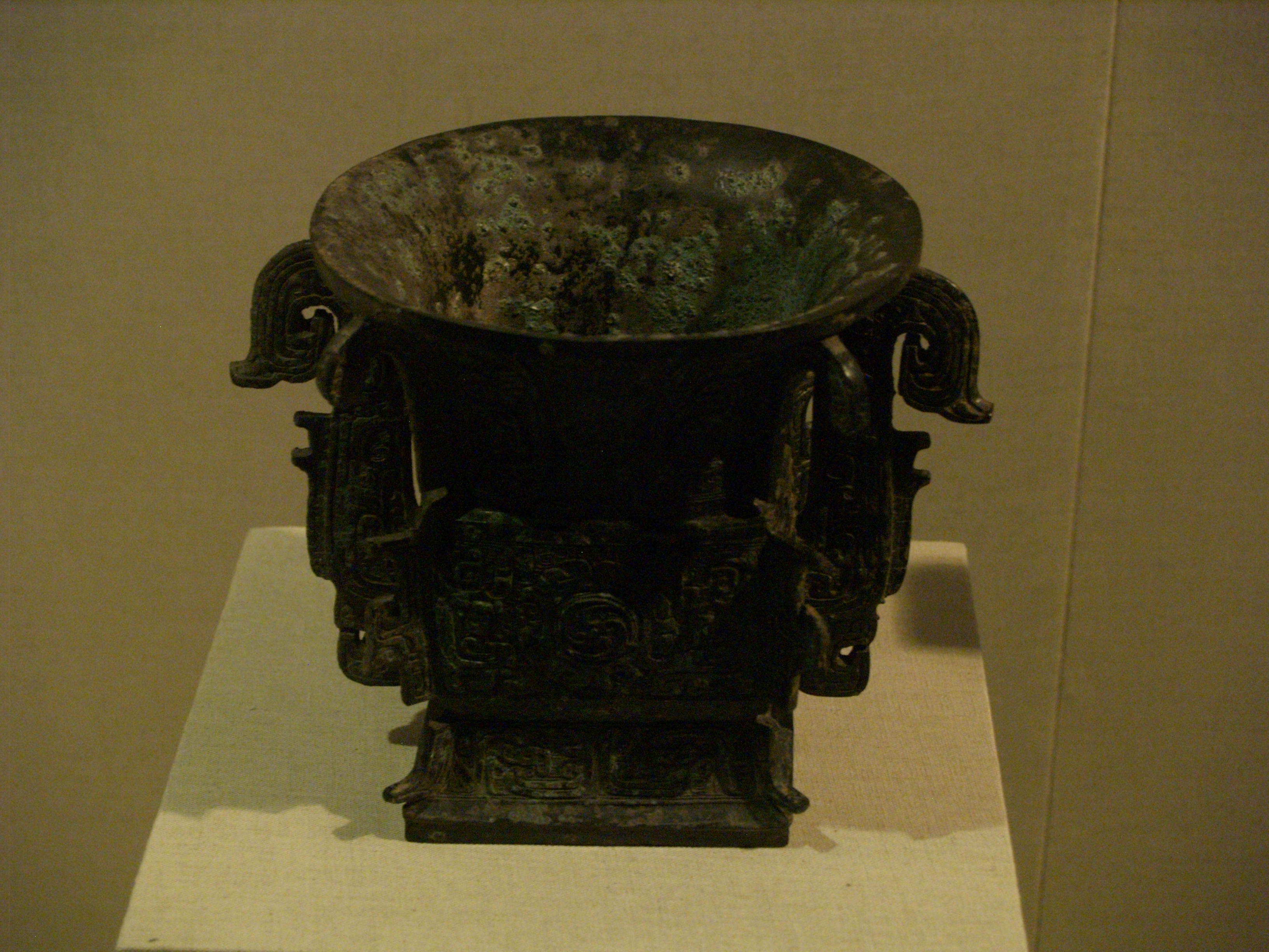 Ritual wine container, Shaanxi History Museum Info provided by the museum below: Bronze Square Zun Vessel Mid-Western Zhou Dynasty (Mid-10th to Mid-9th Century BC) Excavated from Licun village, Meixian County 108 characters is cast inside the bottom of the ware, documenting King of Western Zhou bestowed on Li the title of higher military officer commanding six and eight divisions and equivalent garments. They are very important evidences for the study of politics and military systerms of the Western Zhou Dynasty.